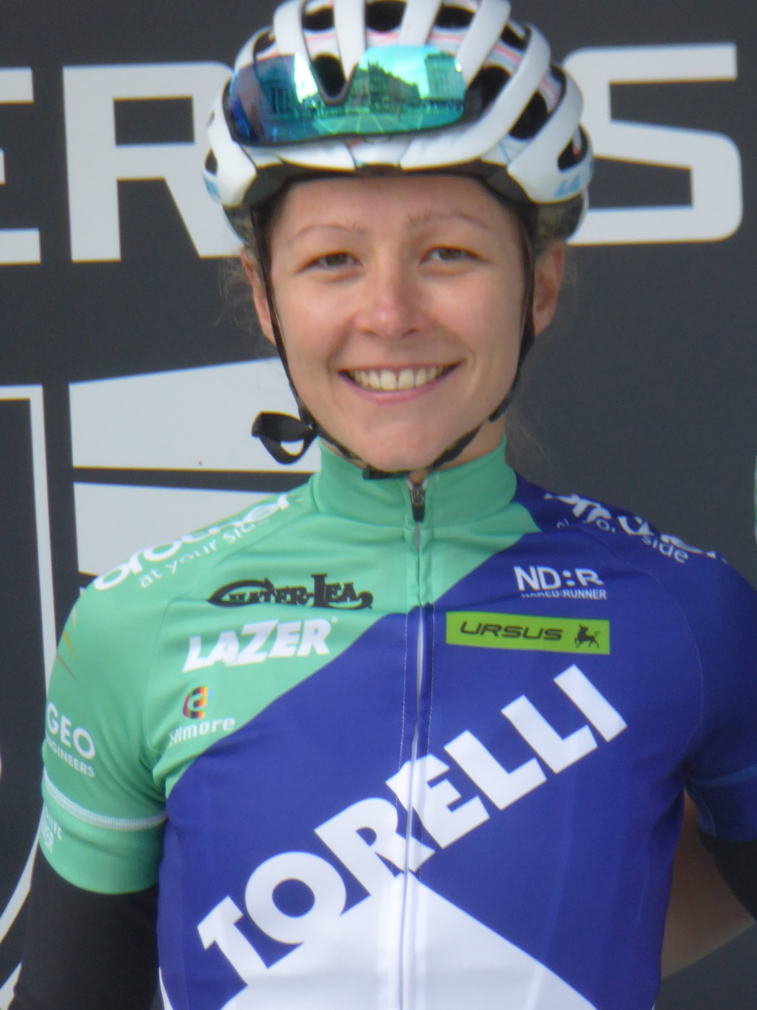 Jen George (Torelli-Brother), prior to Round 3 of the 2018 Women's Tour Series in Aberdeen.